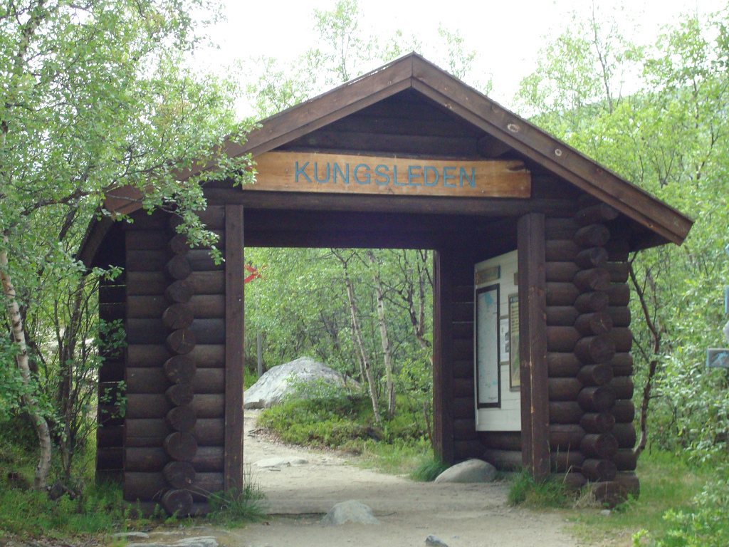 Start of the Kungsleden trail, Abisko national park